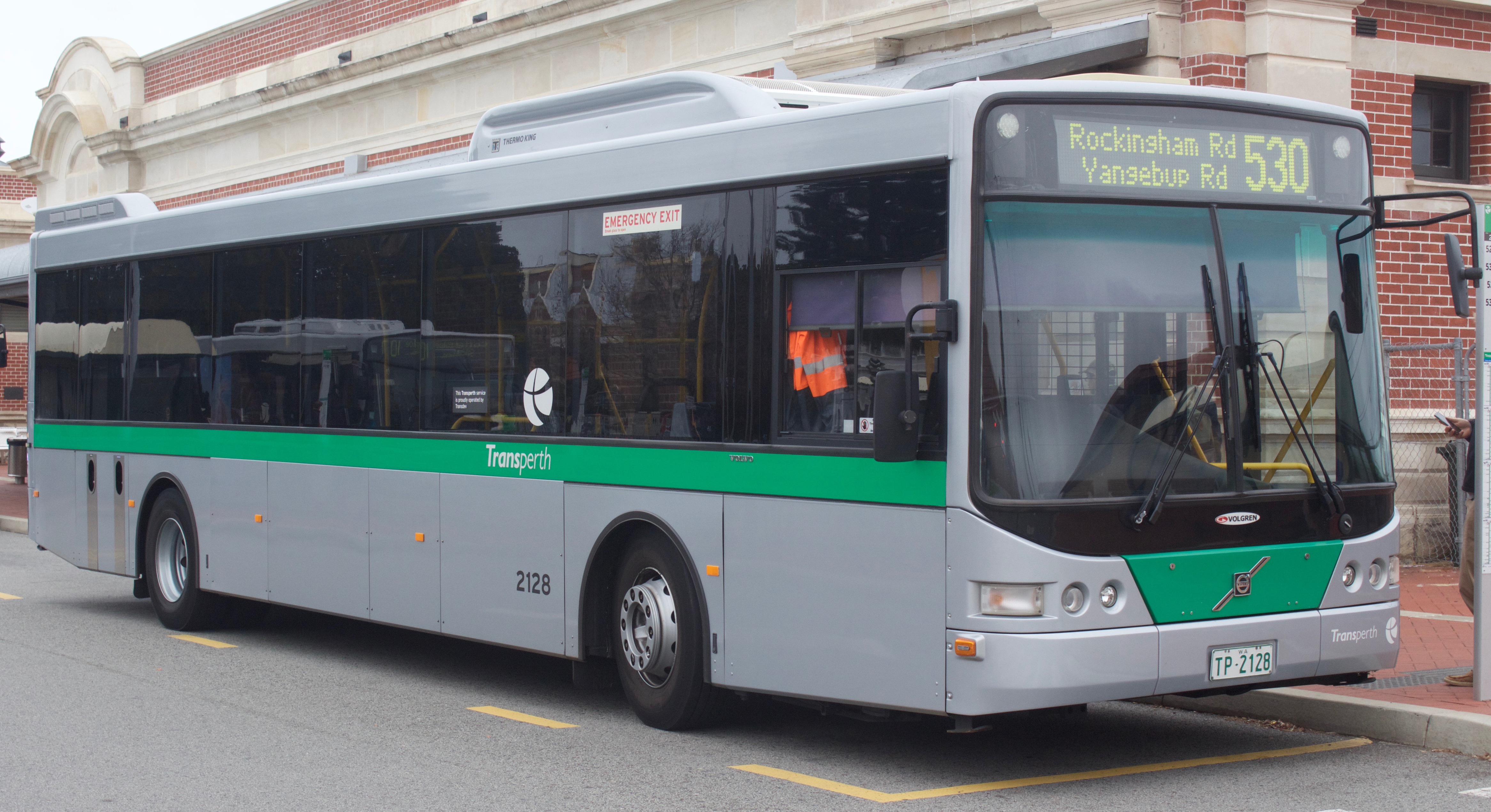 Volgren CR228L bodied Volvo B7RLE (built: 2012, TP2128) operating for Transperth (Transdev) on route 530.